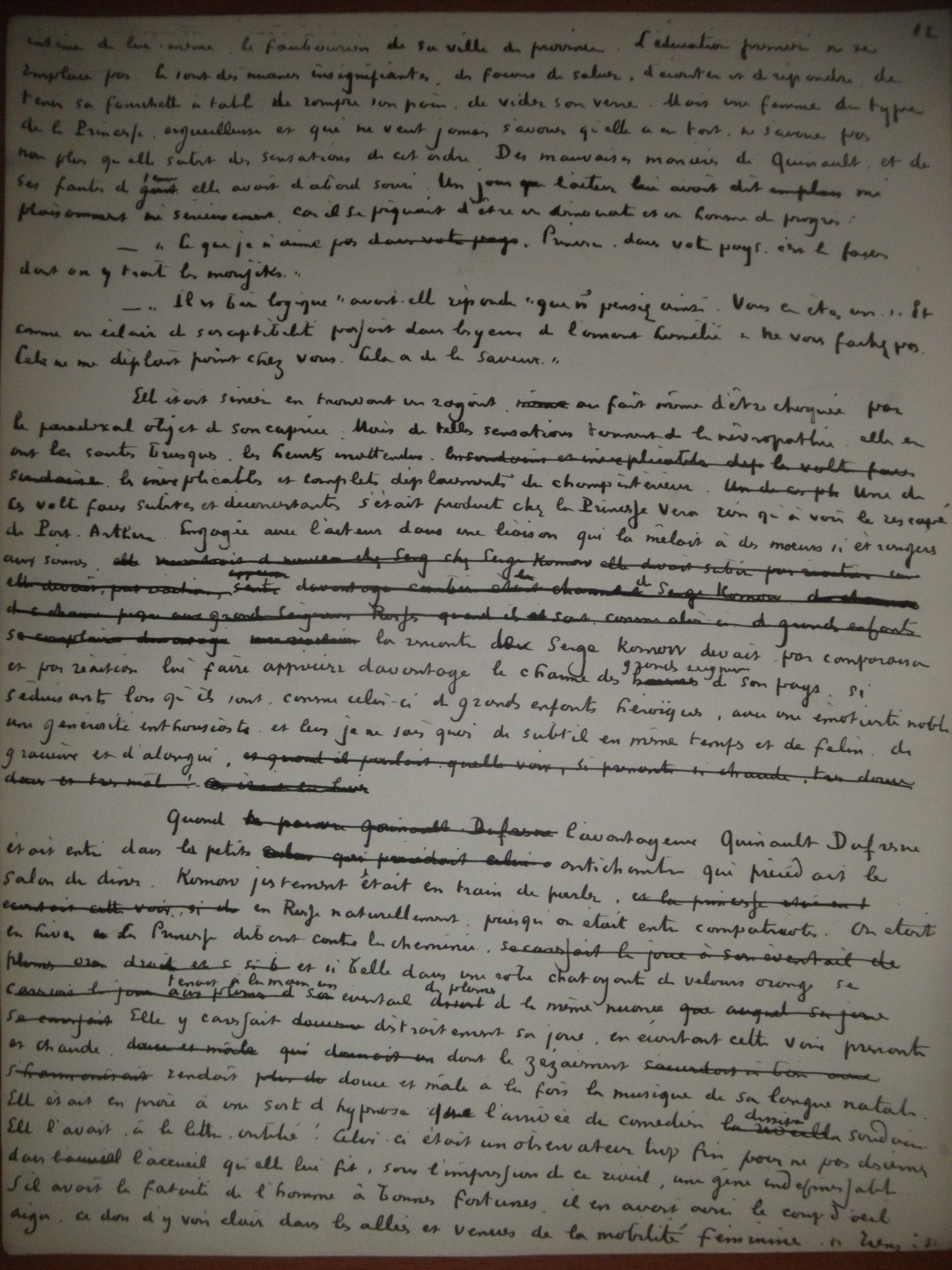 beau role